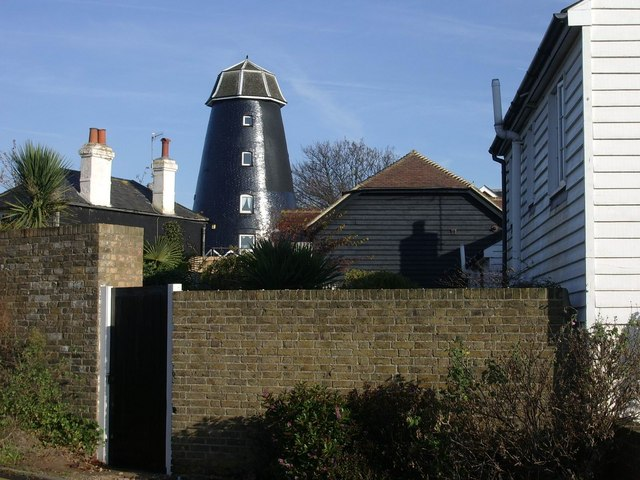 Photograph of Oare windmill, Kent